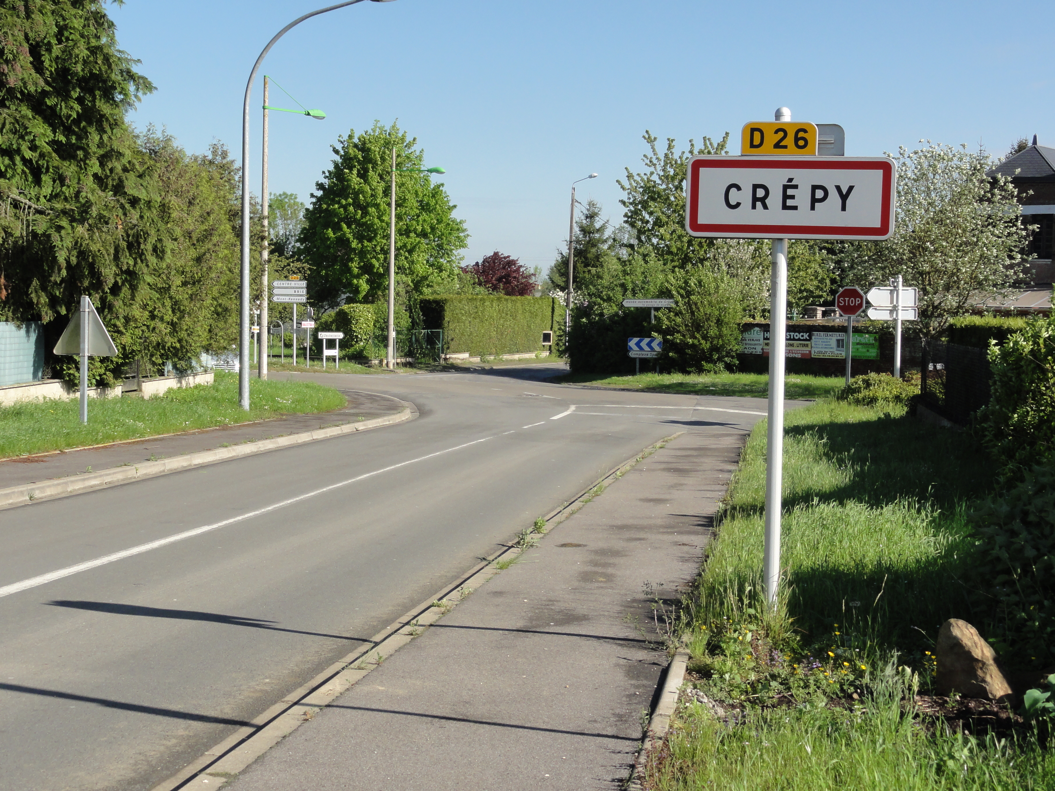 Crépy (Aisne) city limit sign